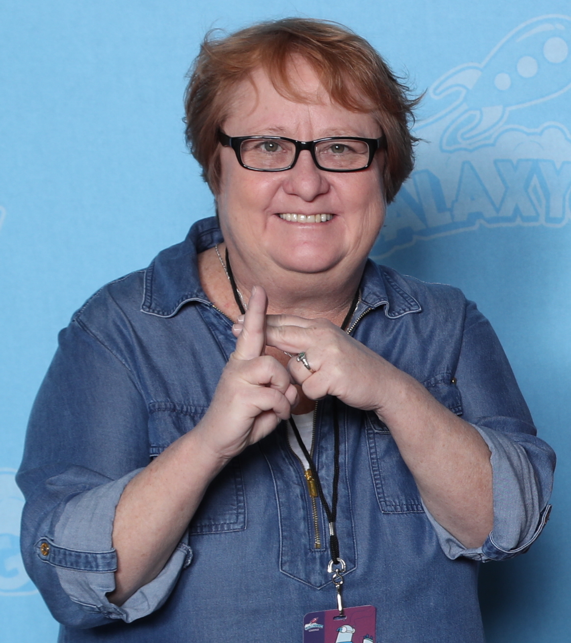 Maile Flanagan at GalaxyCon Louisville in 2019